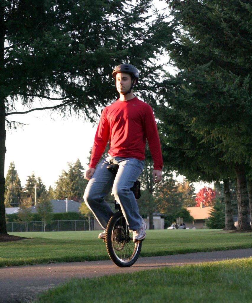 Daniel Wood riding a self-balancing bicycle.